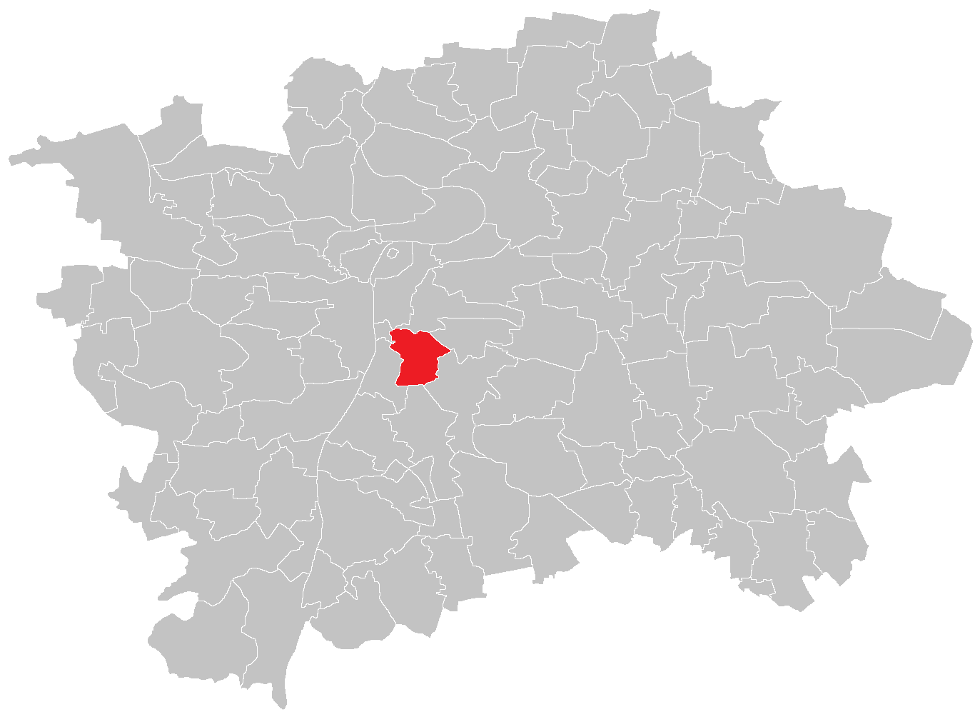 Location map of Prague cadastral area Nusle